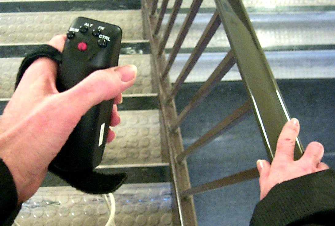 This image is from my textbook: "Intelligent Image Processing" by Steve Mann, John Wiley and Sons, 2001. Twiddler 'glog showing typical everyday use of a keyer. This is a still frame from video 'glog of typical day-to-day use of Twiddler for wearable computing, e.g. typing while running down stairs, which is not practical with any keyBOARD. This picture captures the essence of the difference between keyer and keyboard. May be used freely with proper citation of source, "Intelligent Image Processing" by Steve Mann, John Wiley and Sons, 2001.